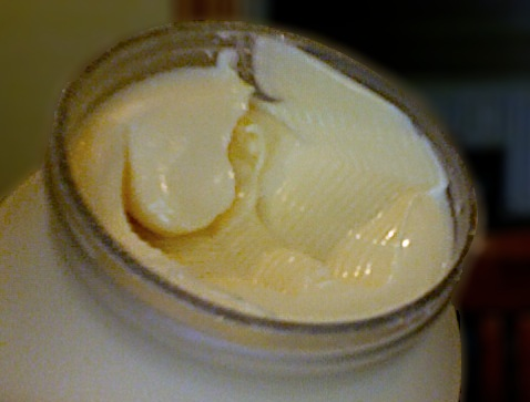 This photo depicts ordinary Mayonnaise and is meant to highlight its properties as a Bingham plastic.